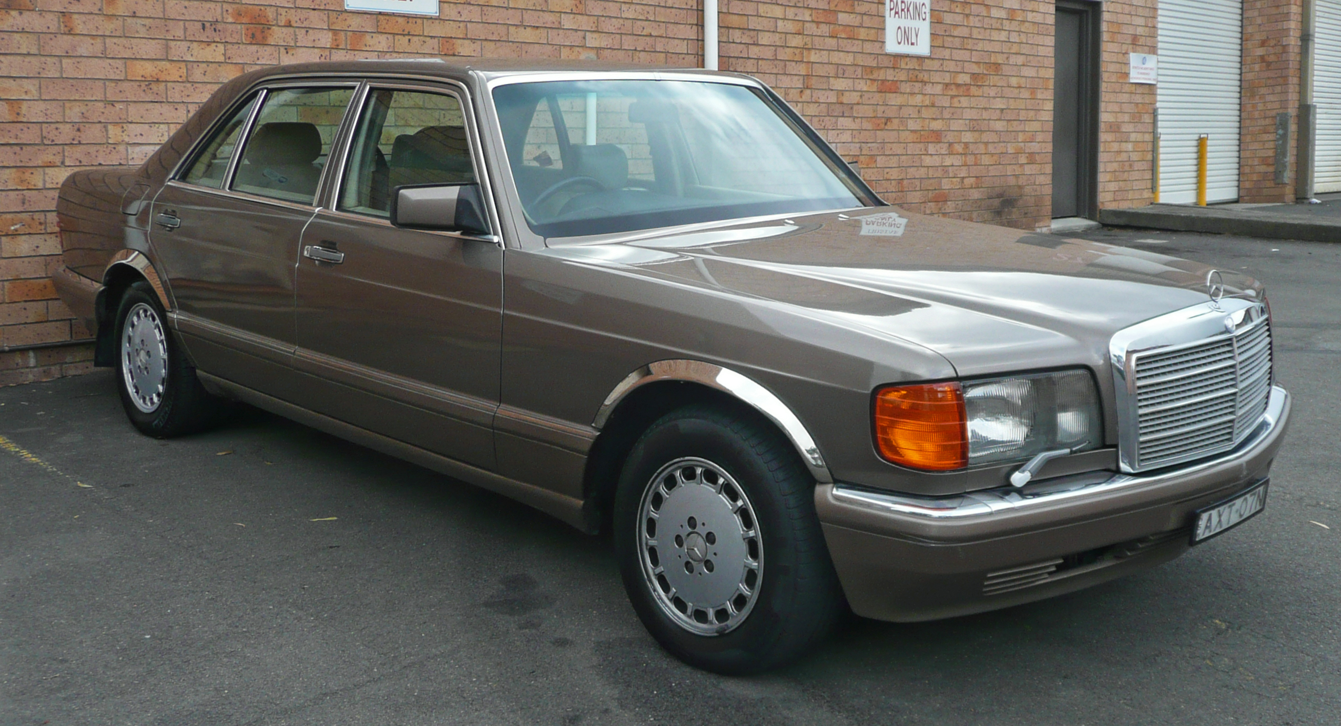 1987–1991 Mercedes-Benz 300 SEL (V 126) sedan. Photographed in Kirrawee, New South Wales, Australia.